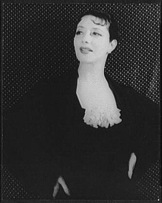 Portrait of Lynn Fontanne - May 23, 1932